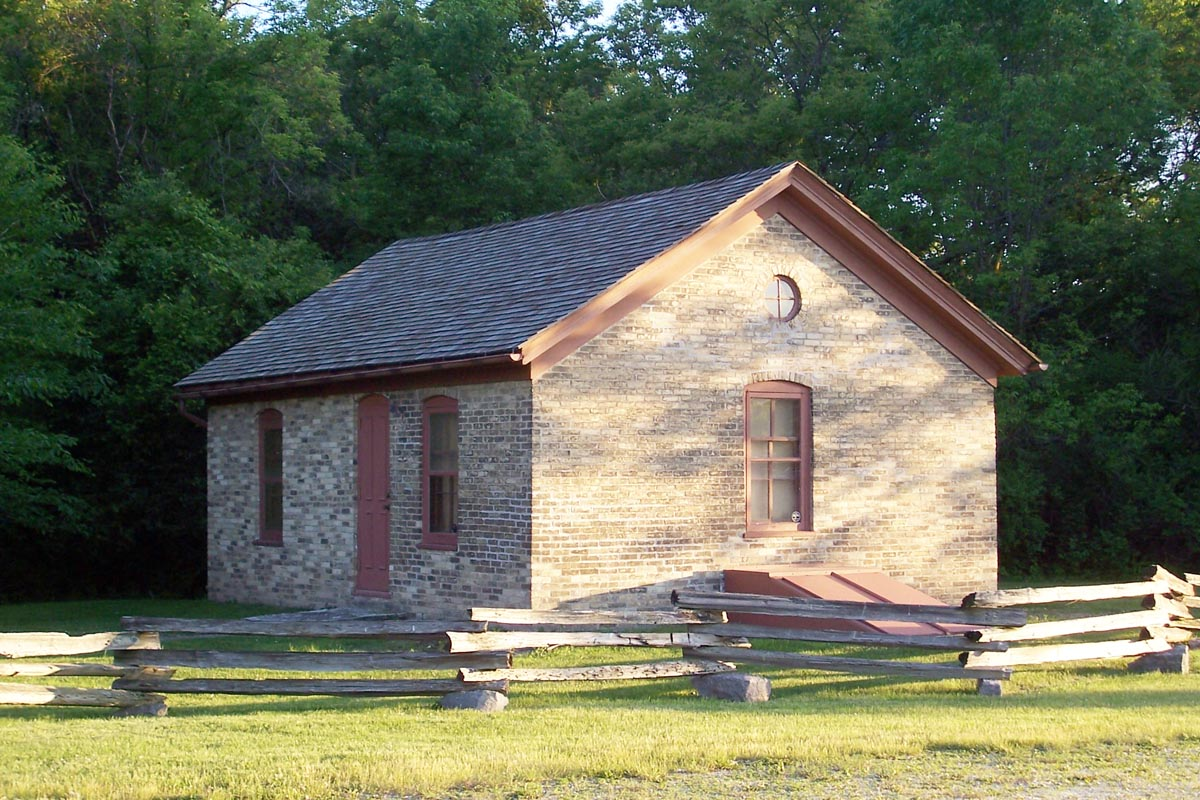 Copyright © 2005 Sulfur This example of a Cream City brick house is preserved by the Greenfield Historical Society in Greenfield, Wisconsin.